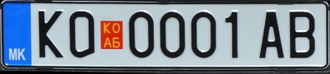 New vehicle registration plate for Kochani